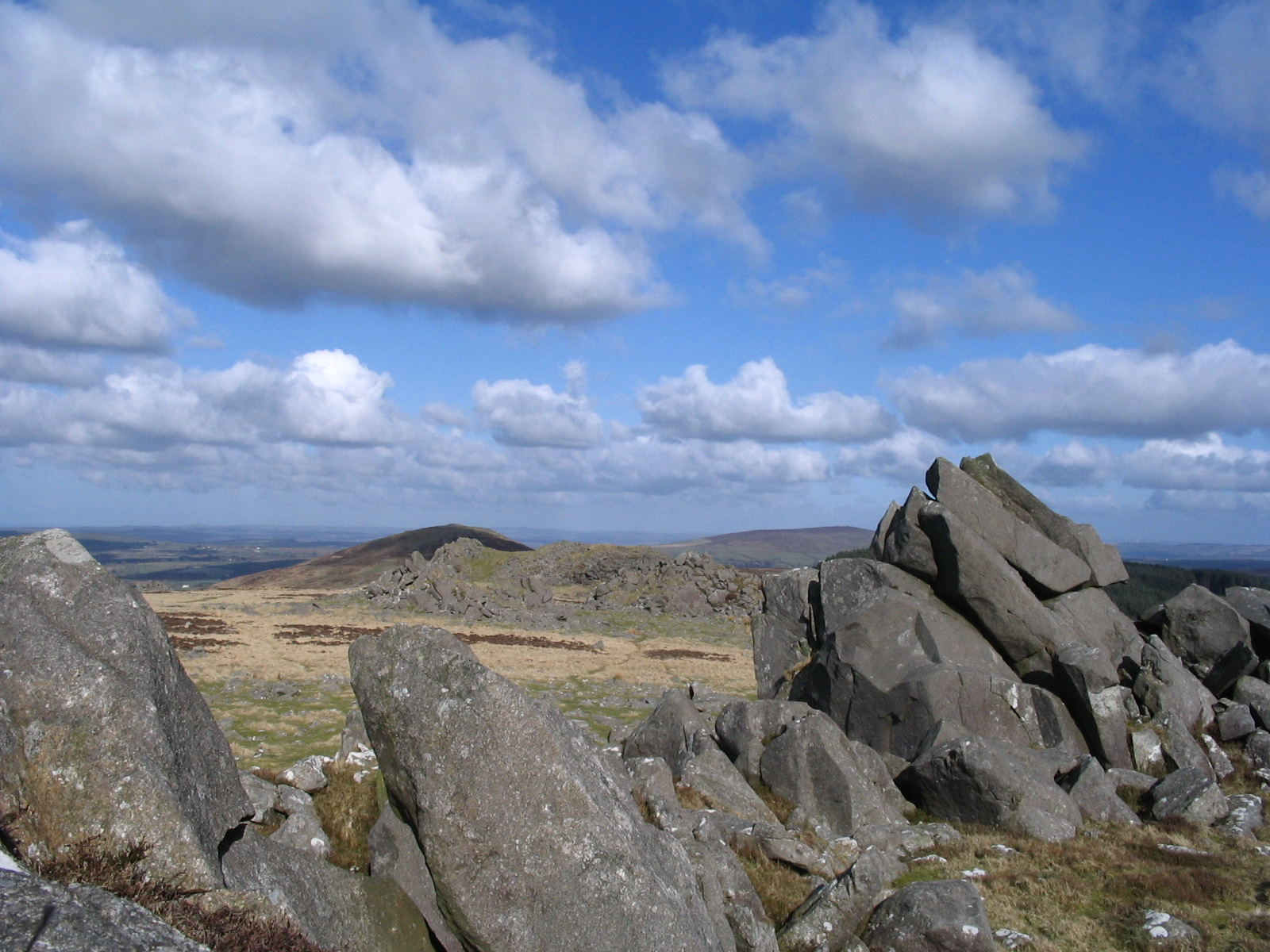 View from Carn Menyn in the Preseli Hills eastwards towards Foel Drigarn and Y Frenni